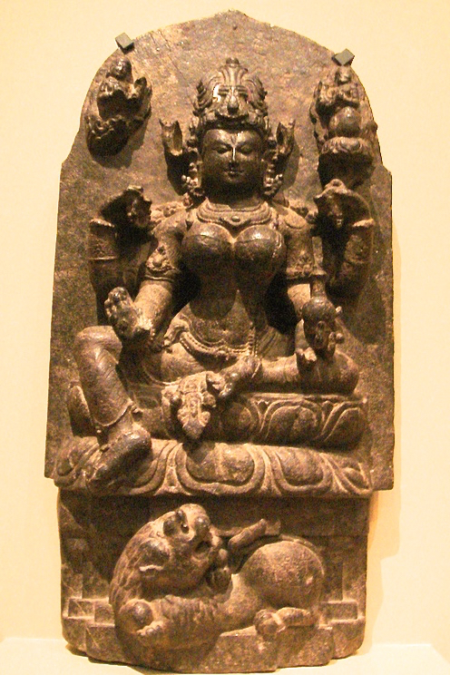 India, Orissa, South Asia The Hindu Goddess Parvati, 12th century Sculpture; Stone, Chloritic schist, 25 1/2 x 13 x 6 in. (64.77 x 33.02 x 15.24 cm) Purchased with Harry and Yvonne Lenart Funds and Museum Acquisition Fund (M.90.153) Wikipedia Loves Art at the Los Angeles County Museum of Art This photo of item # M.90.153 at the Los Angeles County Museum of Art was contributed under the team name "ARTiFACTS" as part of the Wikipedia Loves Art project in February 2009. Los Angeles County Museum of Art The original photograph on Flickr was taken by sisleyceli—please add a comment to the original Flickr page whenever a use has been made on Wikipedia or another project. Project galleries on Flickr: this institution, this team